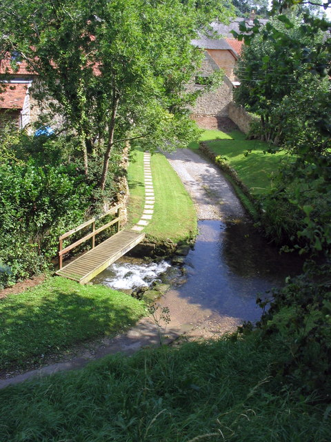 Ford and footbridge at Upton Manor Farm A footbridge and ford cross the River Asker at Upton Manor Farm, just east of Uploders. The view is down a slope from the road above.